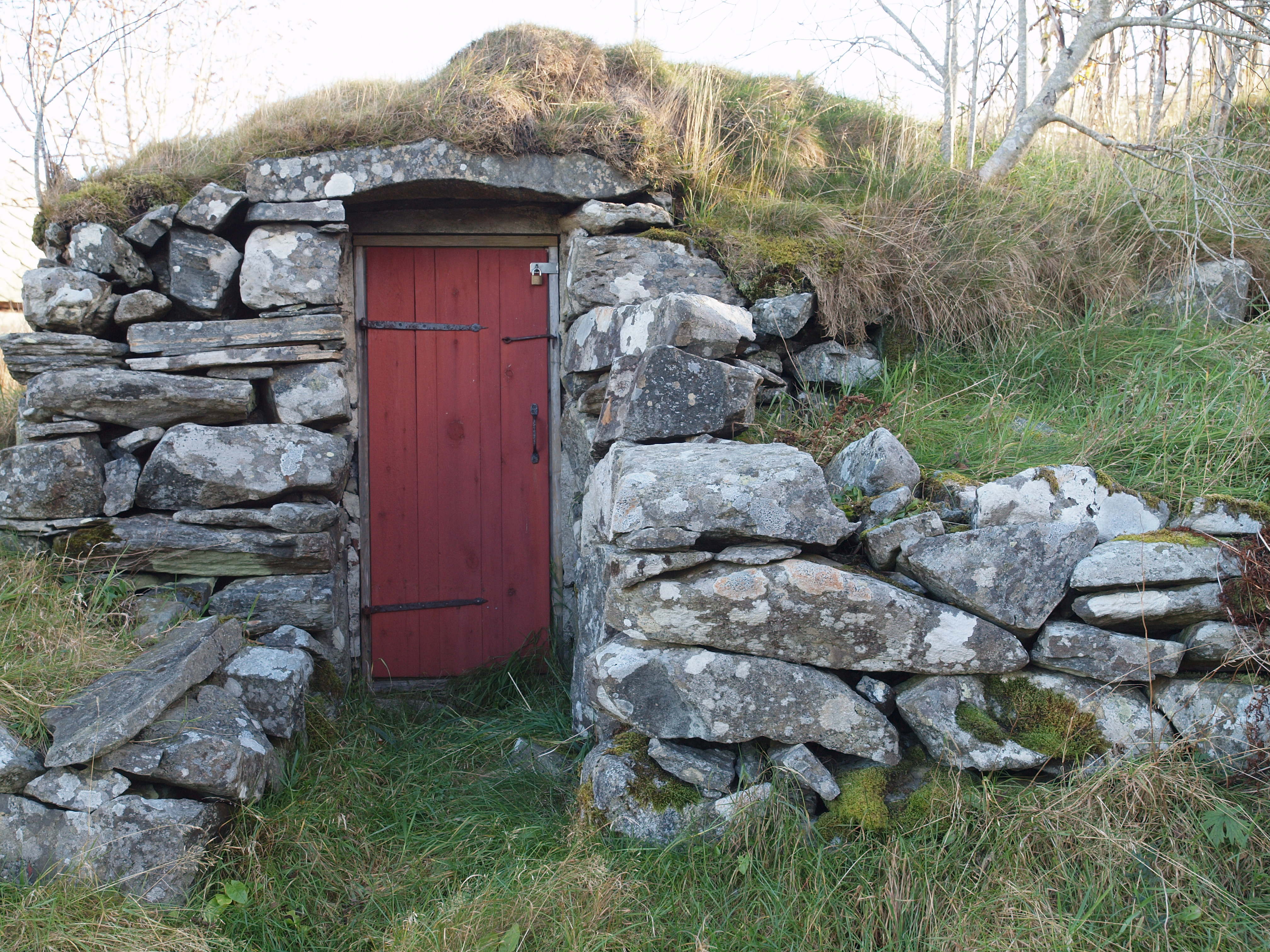 Fiskerbondemuseet, Byrkjenes, Gulen municipality, Sogn og Fjordane county, Norway.